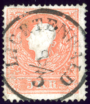 Austrian KK 5 kreuzer stamp, issue 1859, cancelled LICHTENWALD, Styria province, now Sevnica (Slovenia).